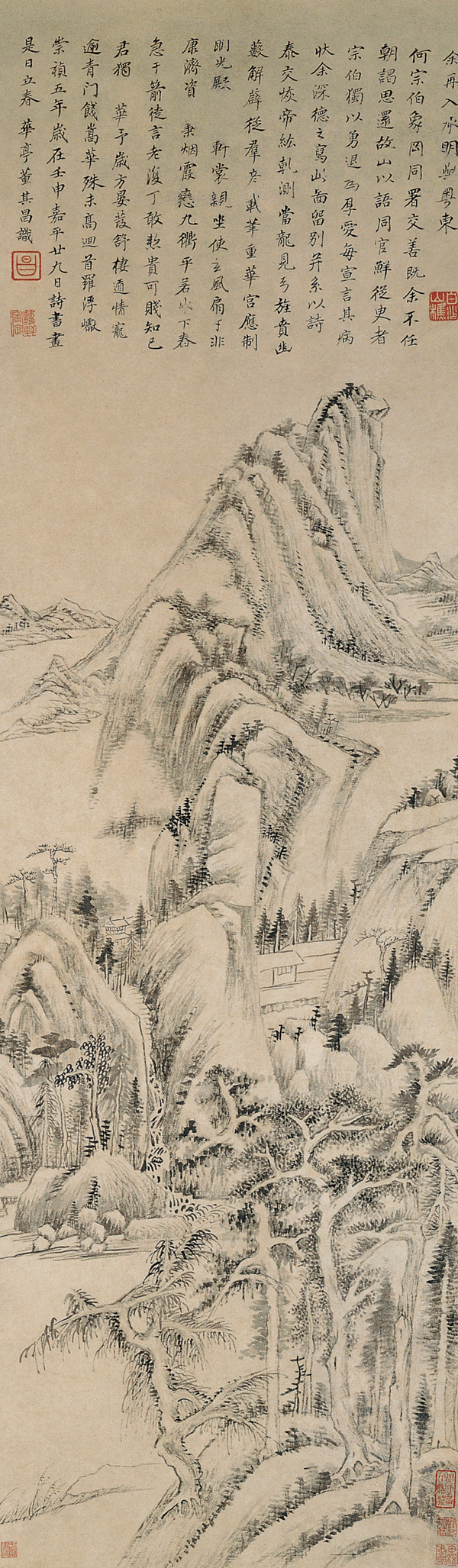 Dong Qichang. Steep Mountains and Silent Waters. 1632. Hanging scroll; ink on paper, 102.5 x 30.3 cm. Kimbell Art Museum.